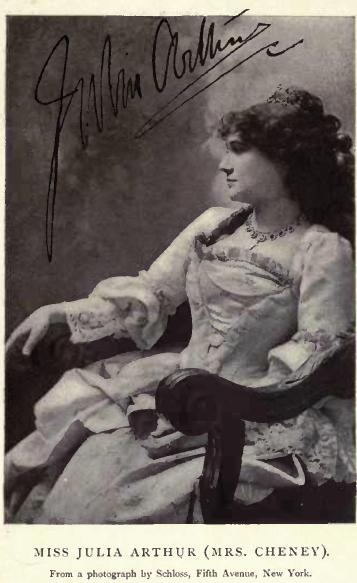 Julia Arthur by Schloss New York